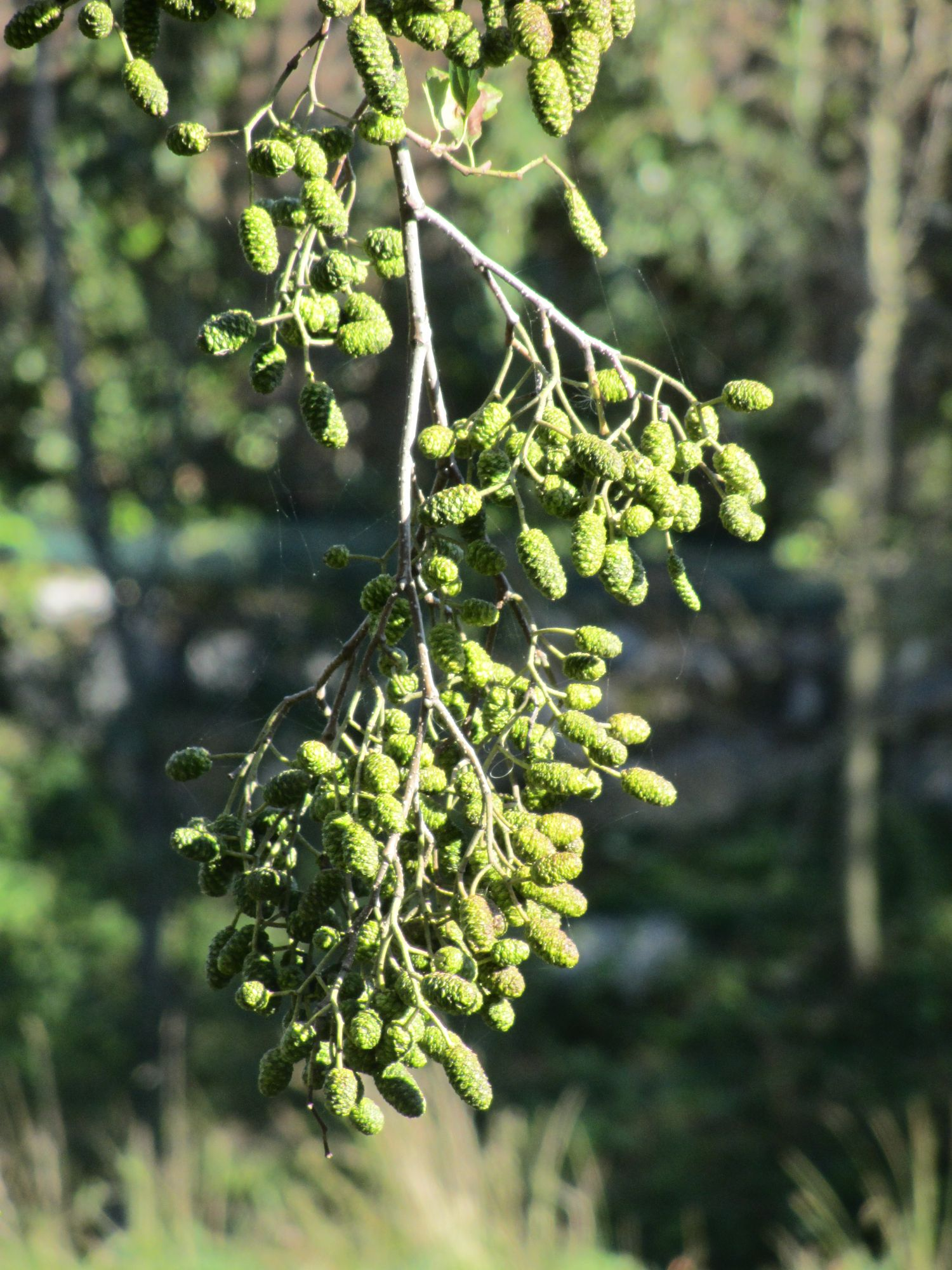 This photograph with inmature fruits of the black alder was taken on 2013-11-07 at the Getxo municipality (43.337N, 3.000W) of the Bizkaia province of the Basque Country (Europe), using a Canon PowerShot S230 camera. The original size was 3000x4000 pixels, it was reduced to the present size (1500x2000 pixels) using the IrfanView freeware program.